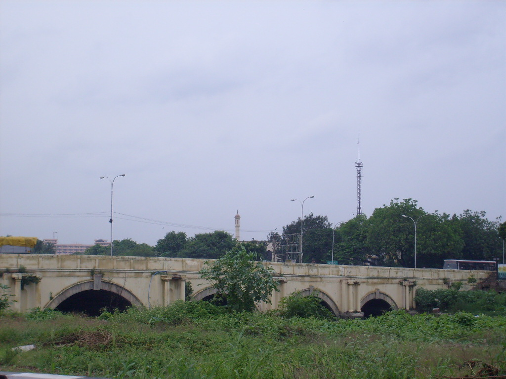 Periyar Bridge across the Coovum River